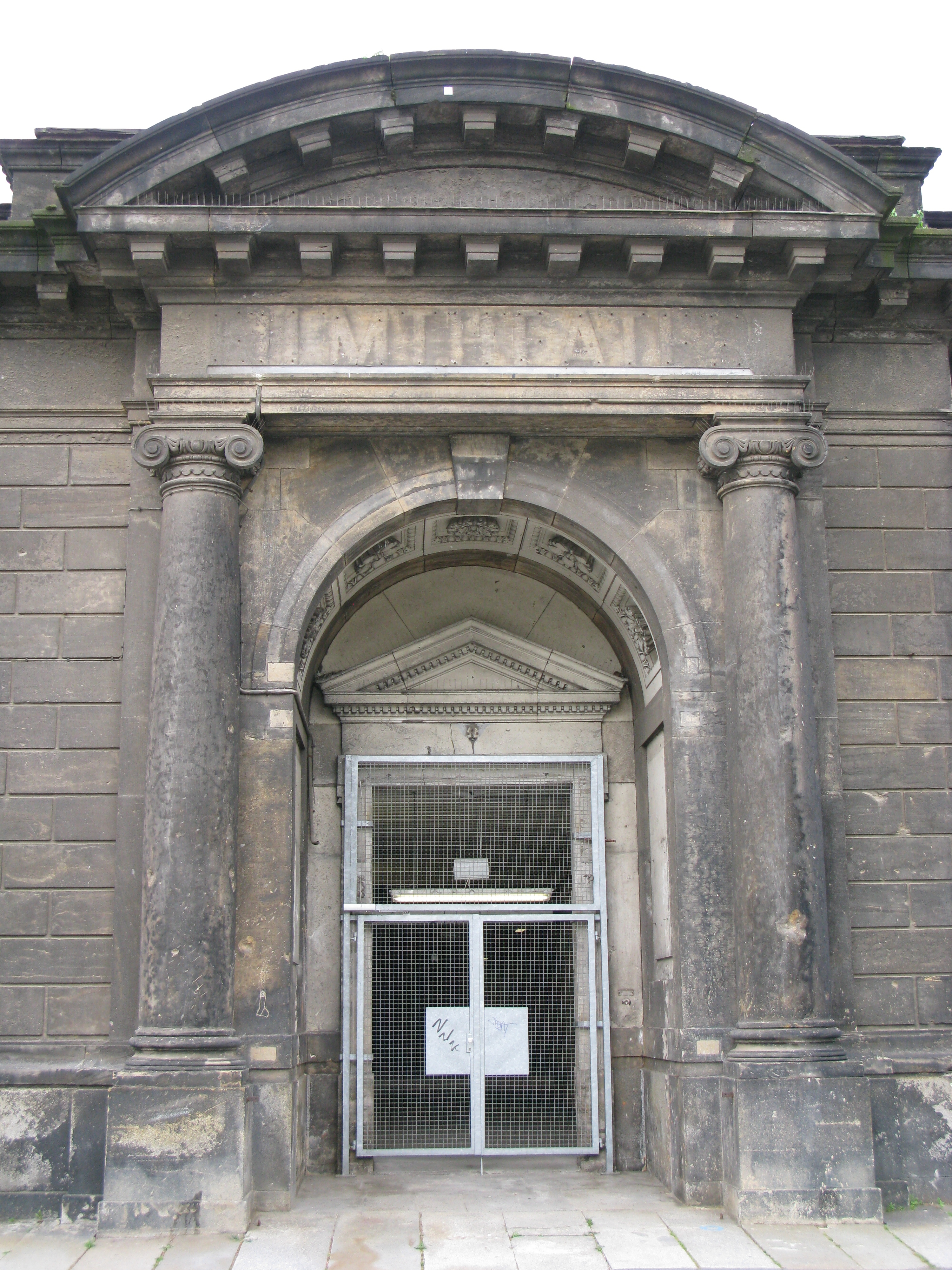 Entrance to the king's pavillon at Dresden Main Station; 1950–2000 exit of the cinema in the pavillon